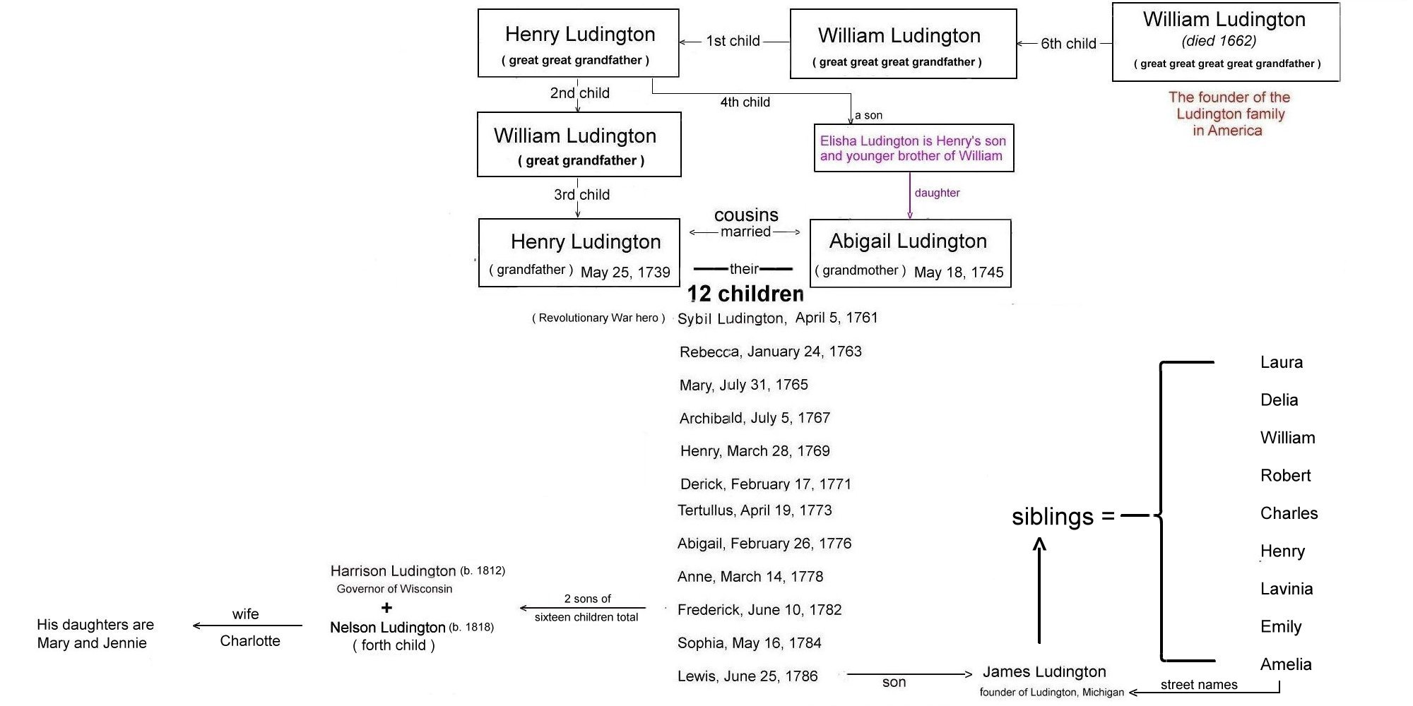 Nelson Ludington family tree